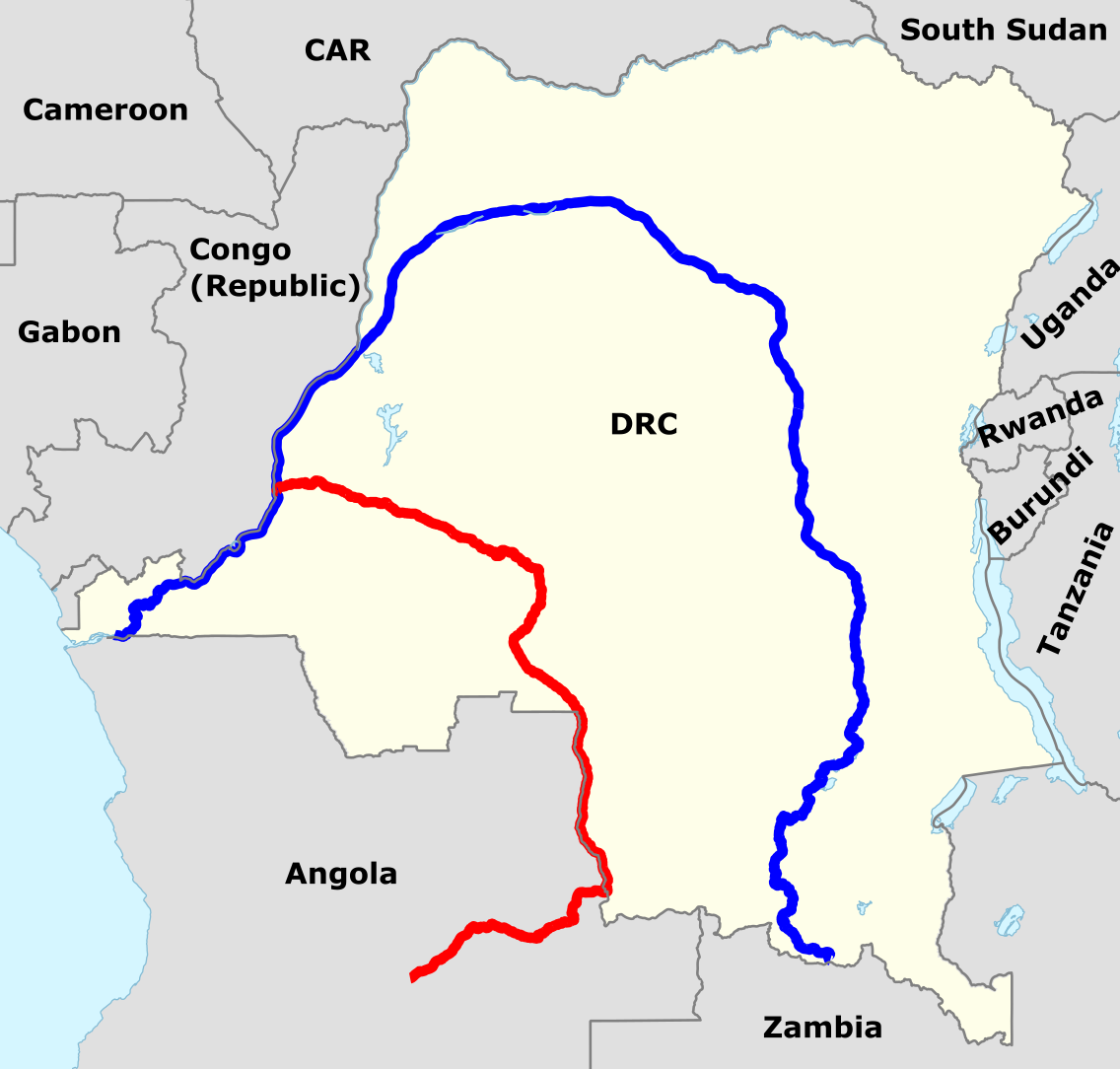 The Kasai River (red) and the Congo River (blue); (simplified)